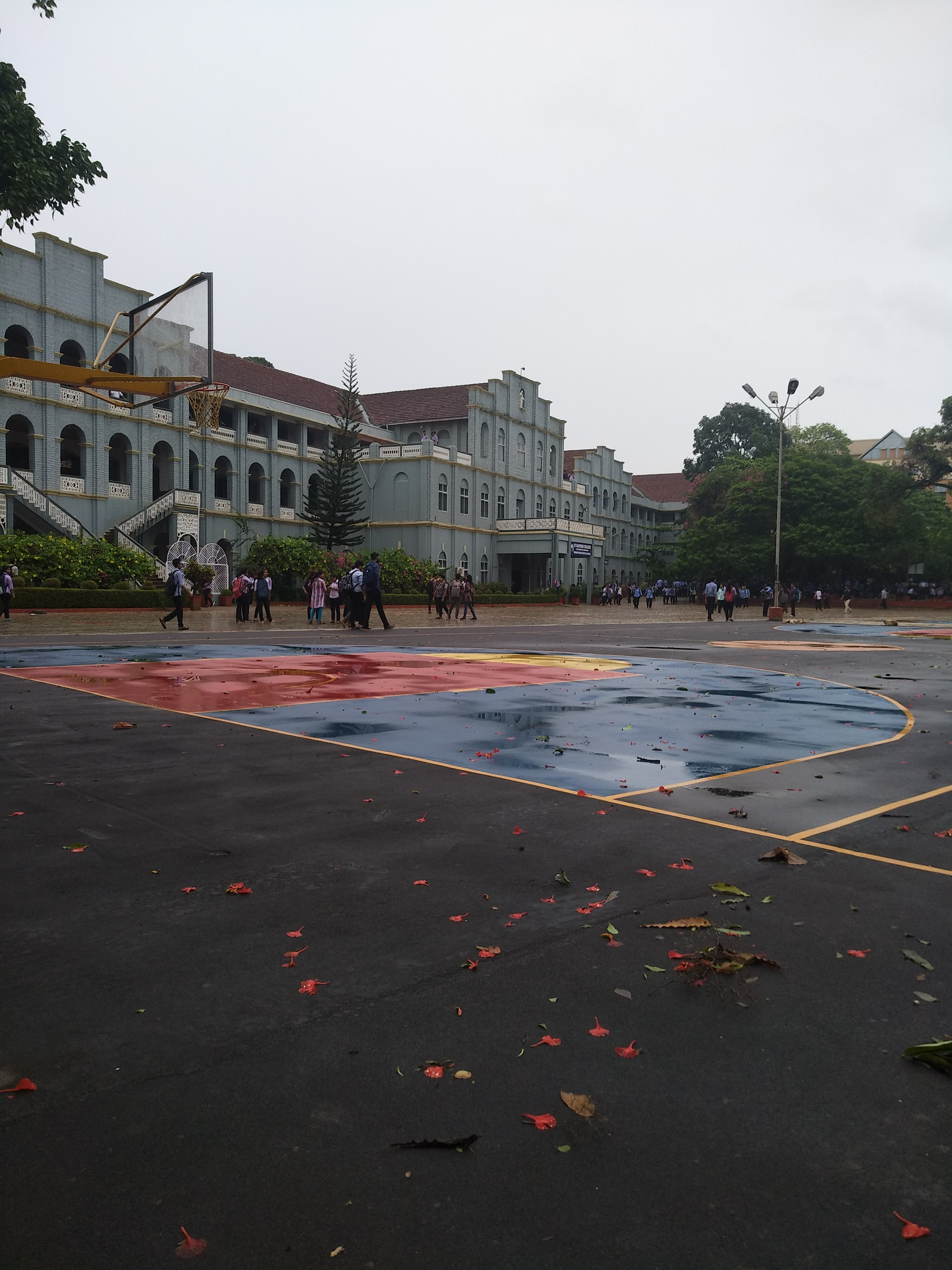 College basketball court